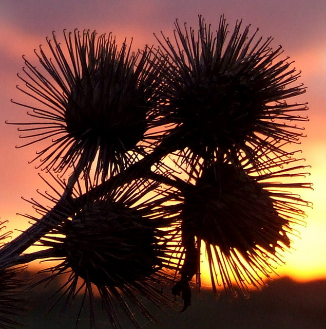 Burrdock Seed heads The dried heads of a burdock plant stand between the path and the beach. The small hooks that allow it to catch so efficiently to clothing can be seen against the colour of the fading sun.